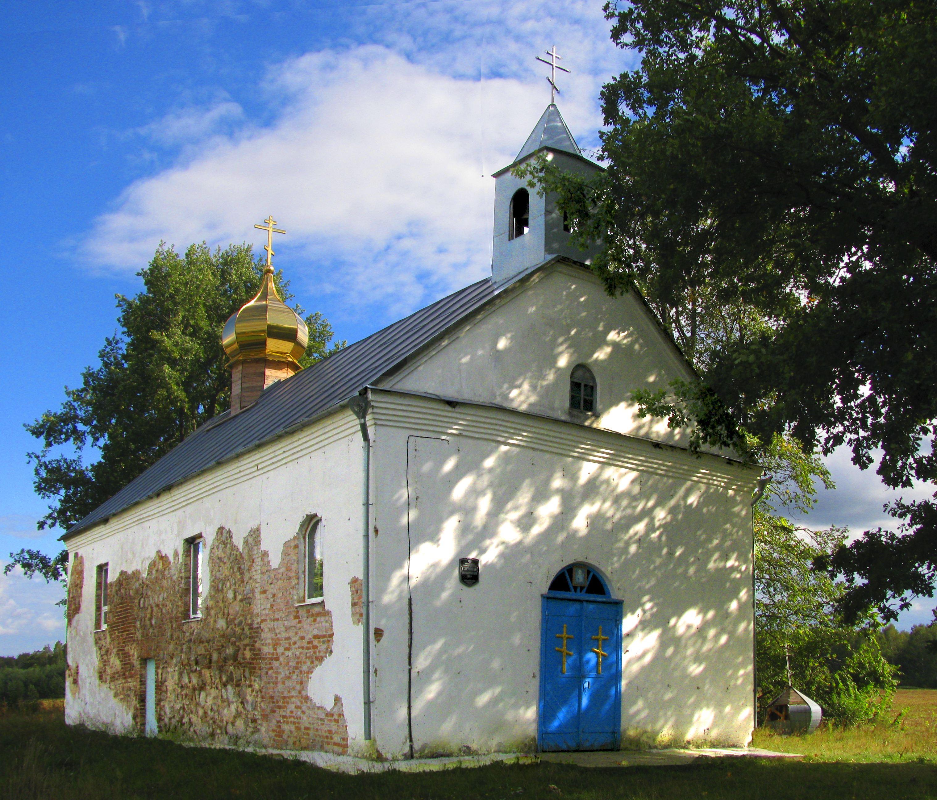 Беларуская (тарашкевіца): Мікалаеўская царква (Засімавічы) This is a photo of Belarusian heritage monument. Reference number: 113Г000608 ( WLM)